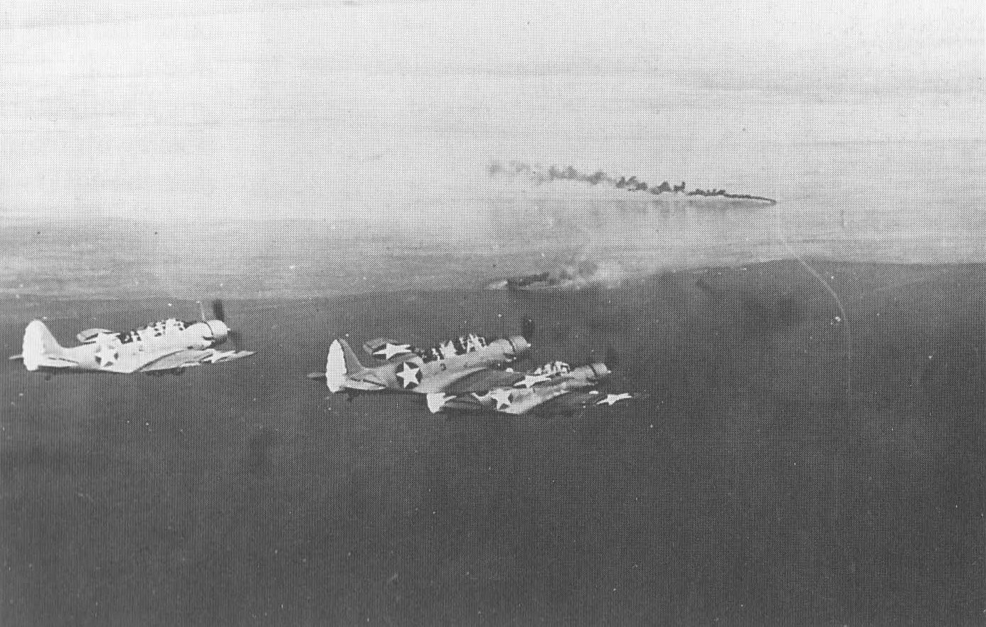 U.S. Navy Douglas TBD-1 Devastator aircraft from torpedo squadron VT-5, assigned to the aircraft carrier USS Yorktown (CV-5), prepare to attack Japanese shipping with bombs in the Huon Gulf supporting the Japanese invasion of Lae-Salamaua, New Guinea, on 10 March 1942. Two Japanese ships, possibly the auxiliary vessel Noshiro Maru and minesweeper Hagoromo Maru, can be seen making a smoke screen below in anticipation of the air attack. The first plane on the left was piloted by Joe Taylor, the second by Leonard E. Ewoldt, and the third by Francis R. Sanborn.